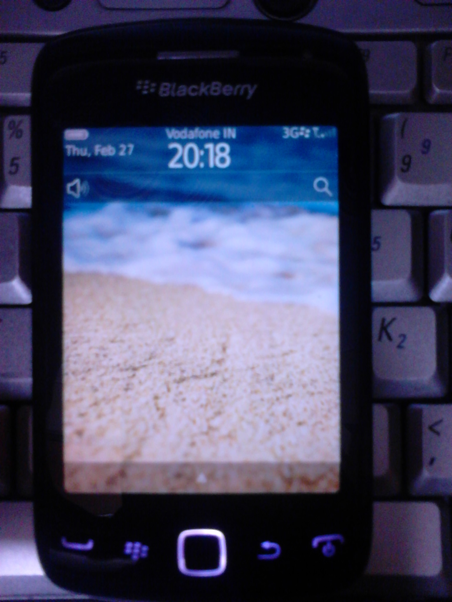 BlackBerry Curve 9380 Black, Full TouchScreen